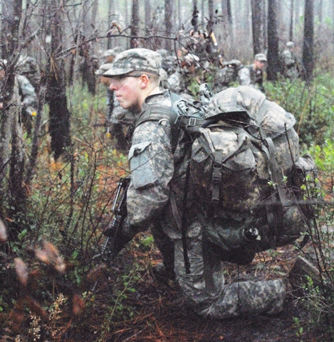 Soldiers take a knee and conduct 360-degree security while a reconnaissance group moves ahead to ensure their path is clear. See more at Ranger students get swamped in Florida